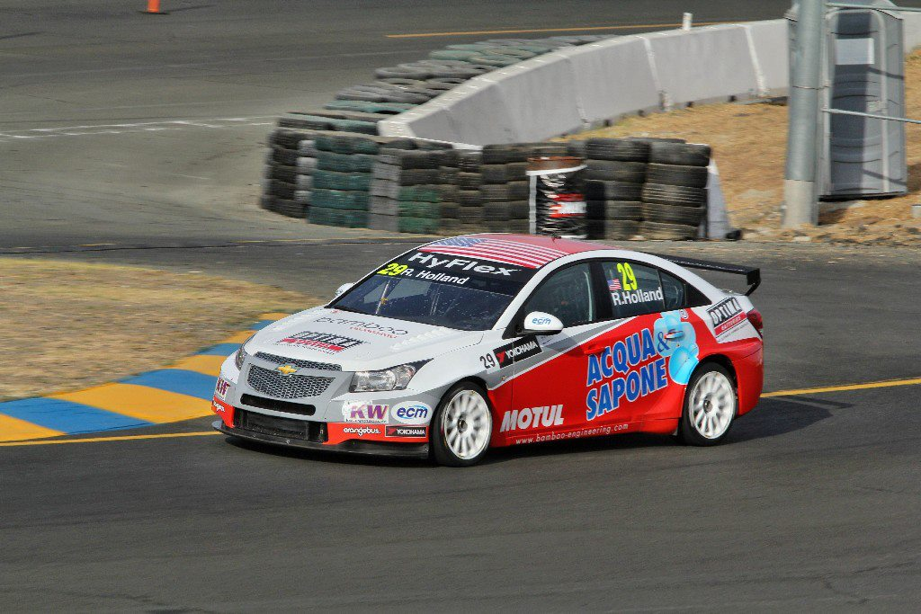 Robb Holland entering turn 2 at Sonoma Raceway